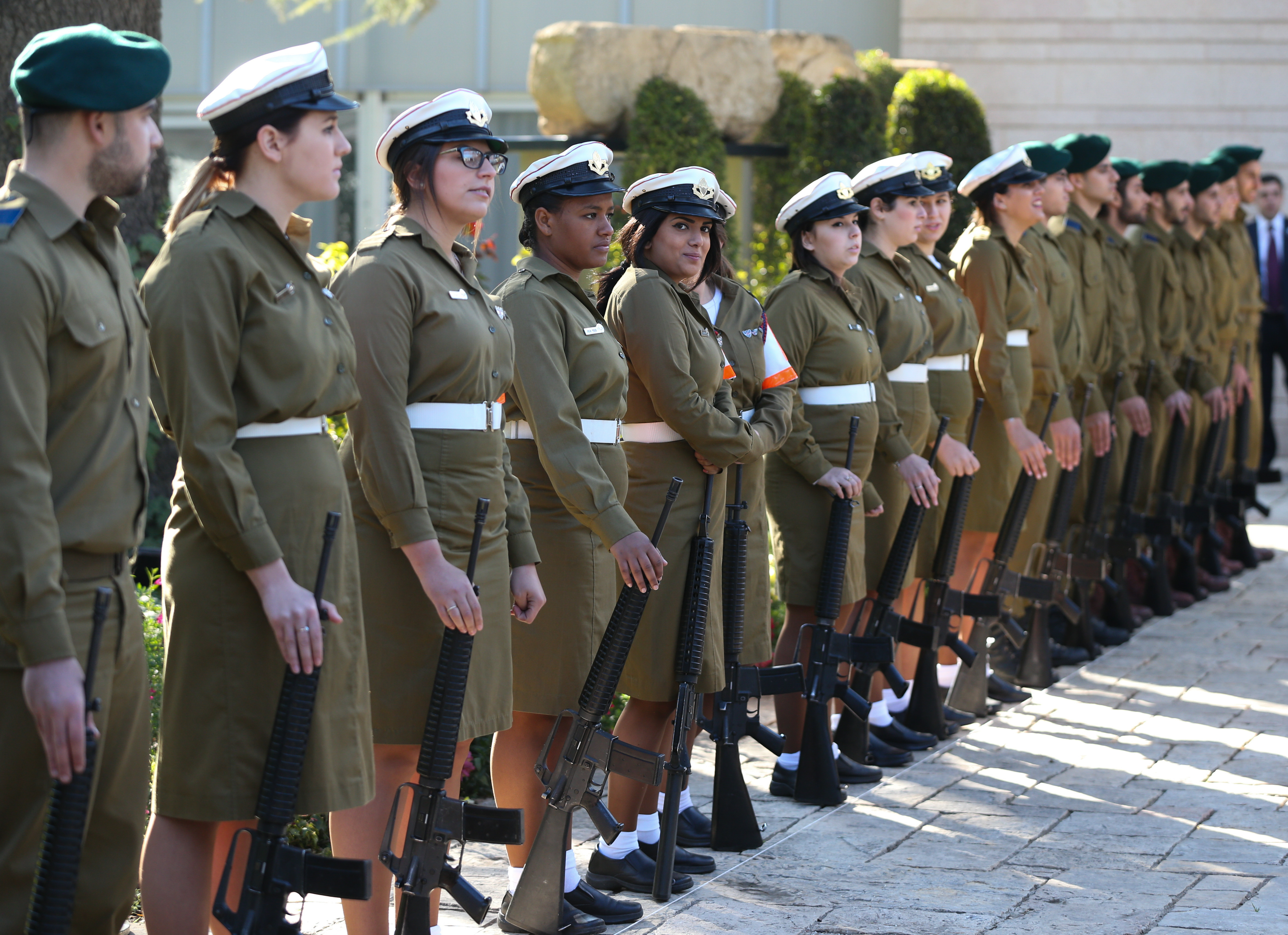 Israeli Honor Guards stand at attention for the state visit of the President of Ukraine Petro Poroshenko to the State of Israel in December 2015.